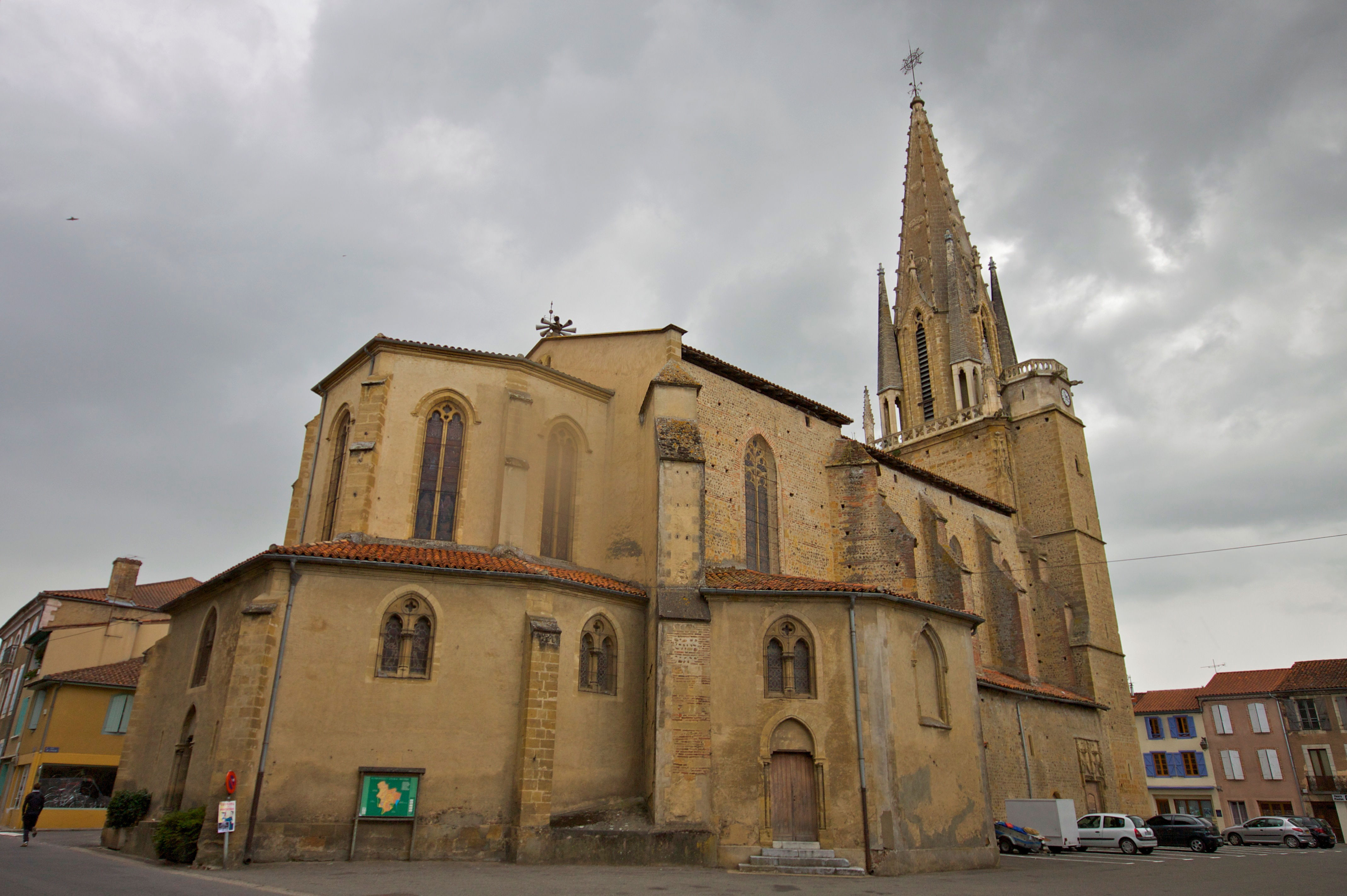 The church at Trie-sur-Baïse in the Hautes-Pyrenees department of France. Trie-sur-Baïse is a town in the Hautes-Pyrénées department in south-western France. It is famous for its pig festival "La Pourcailhade" held in late July or early August, which once featured on the UK's Channel 4 television programme Eurotrash. Amongst the prizes awarded is one for the best human pig-impersonator, "Le Championnat de France du Cri de Cochon". (Information from